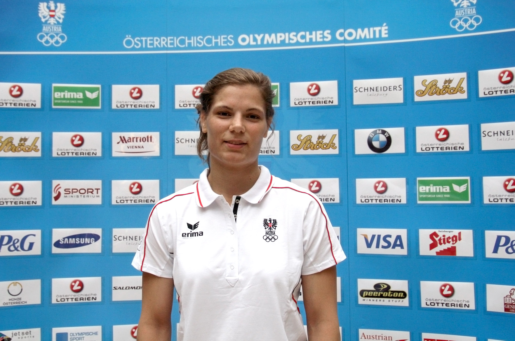 Judoka Hilde Drexler at the hand-out of the Austrian teams official attire for the 2012 Summer Olympics in London (Marriott, Vienna).